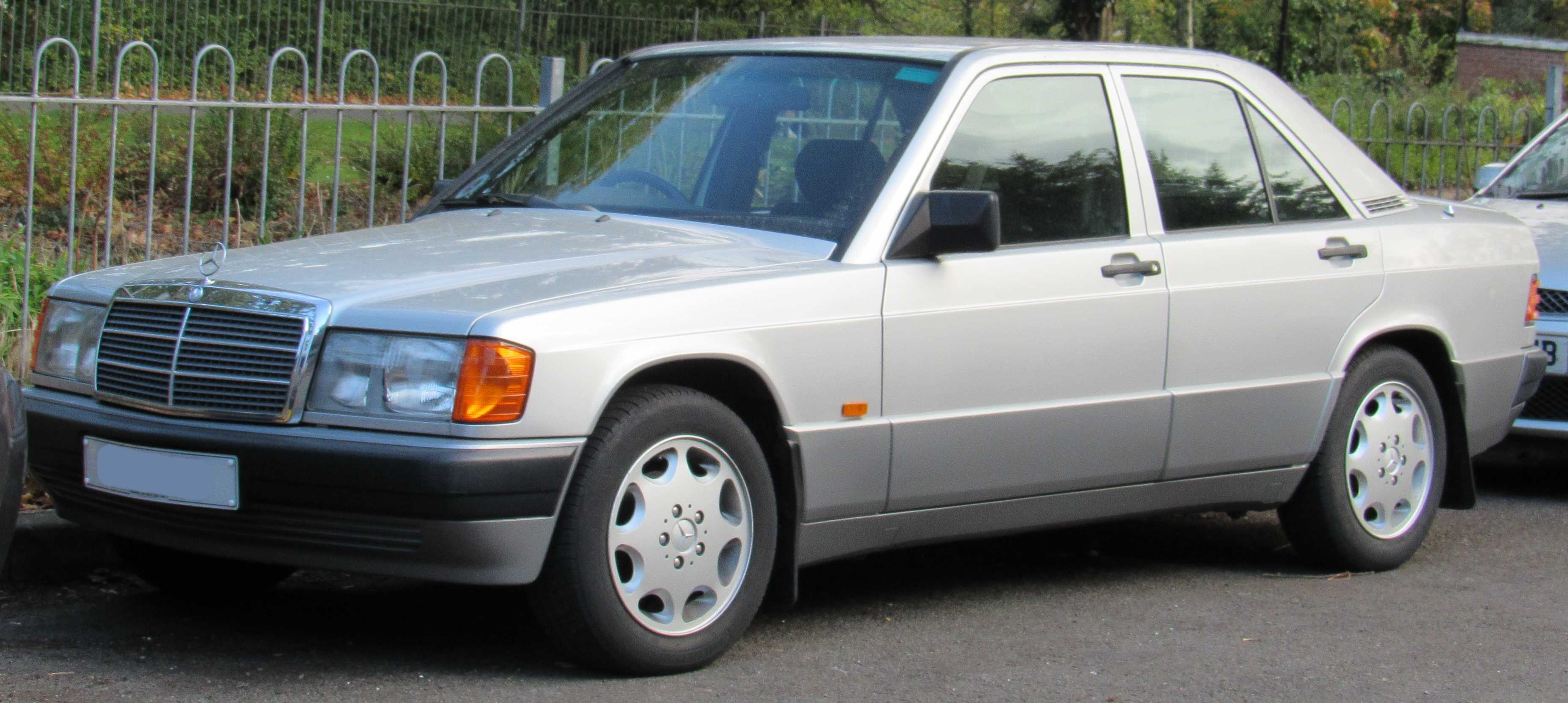 1993 Mercedes-Benz 190E Automatic 1.8 Front Taken in Leamington Spa (My 1000th image)